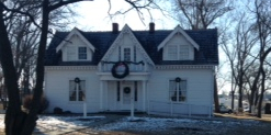 Rice-Tremonti Home, Raytown, Missouri